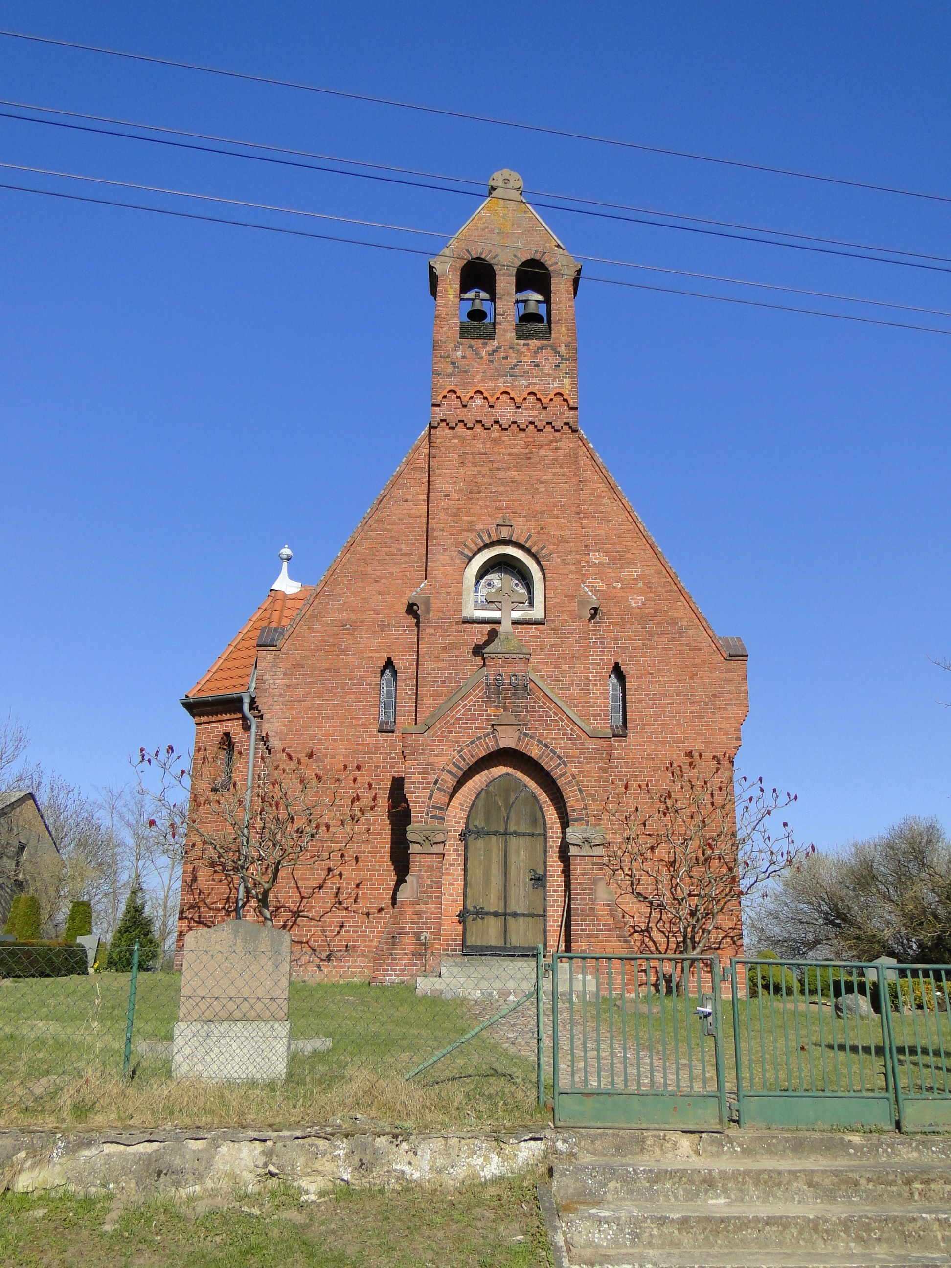 Church in Babke, disctrict Mecklenburg-Strelitz, Mecklenburg-Vorpommern, Germany